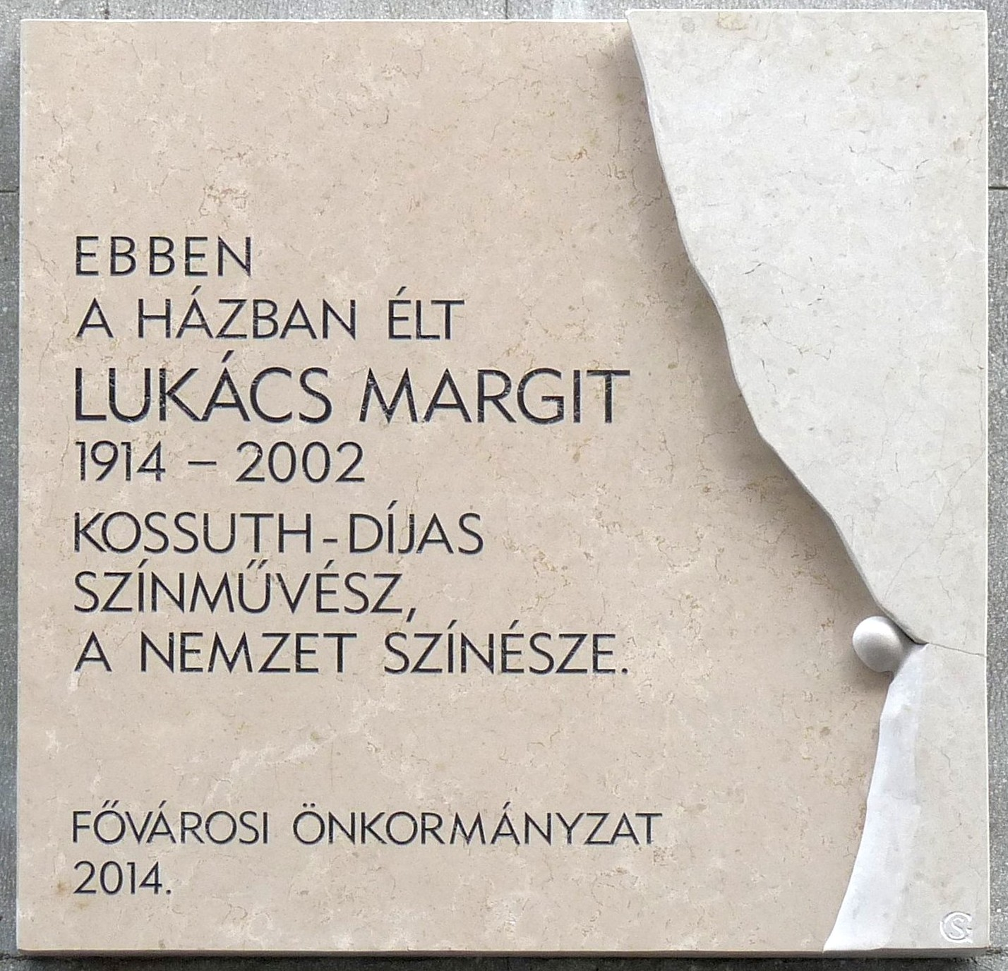 Commemorative plaque to Mrs. Margit Lukács (1914-2002) Hungarian dramatic artist, "Actress of the Nation". It has been placed on the wall of his former home September 22, 2014 on the occasion of her centenary. The author of the relief is Mr. Géza Stremeny. (Budapest, District VIII, Vas Street Nr 2/b)